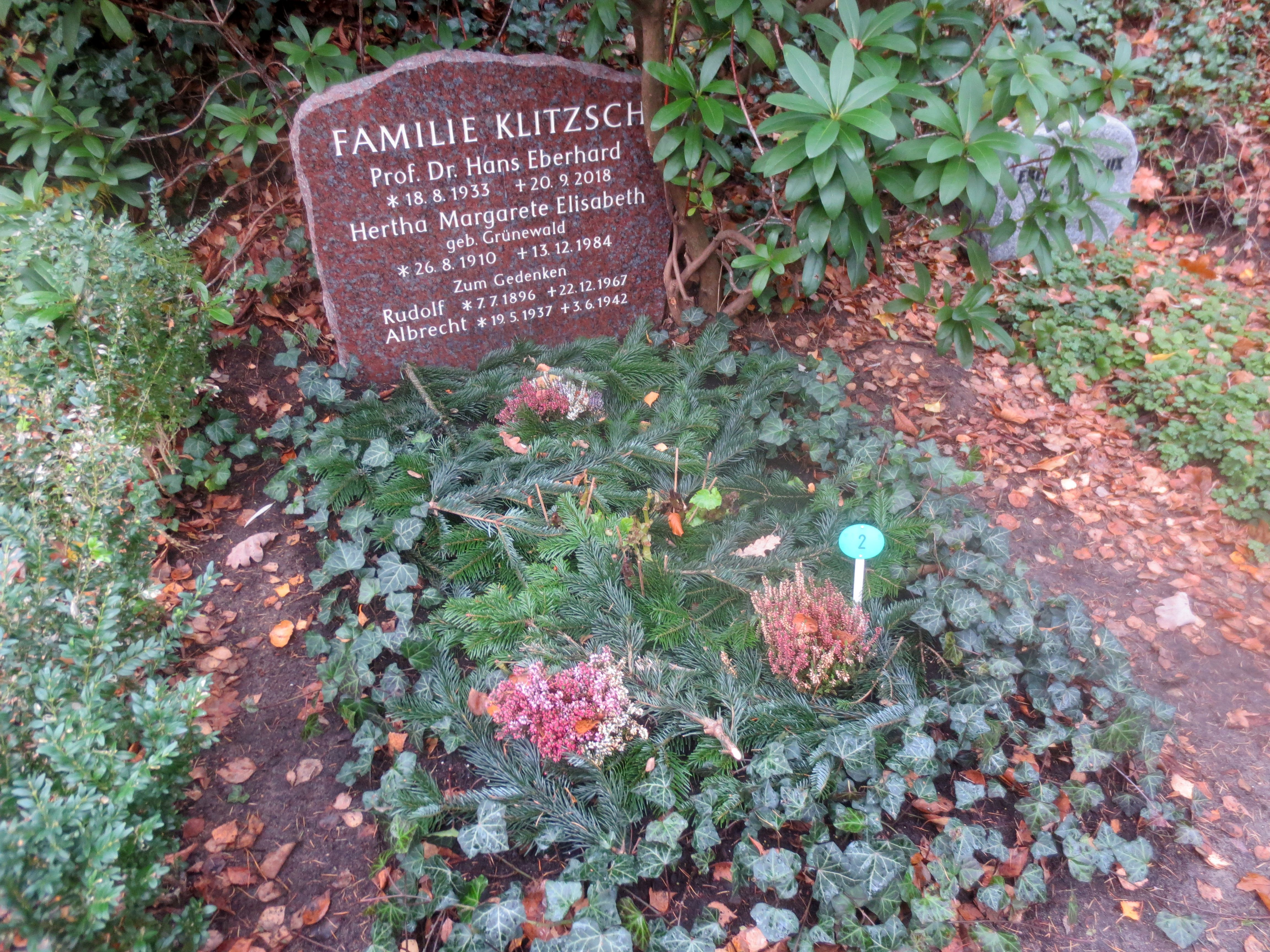 Grave of the geologist Hans Eberhard Klitzsch (1933-2018) on the Friedhof Heerstraße cemetery in Berlin-Westend.